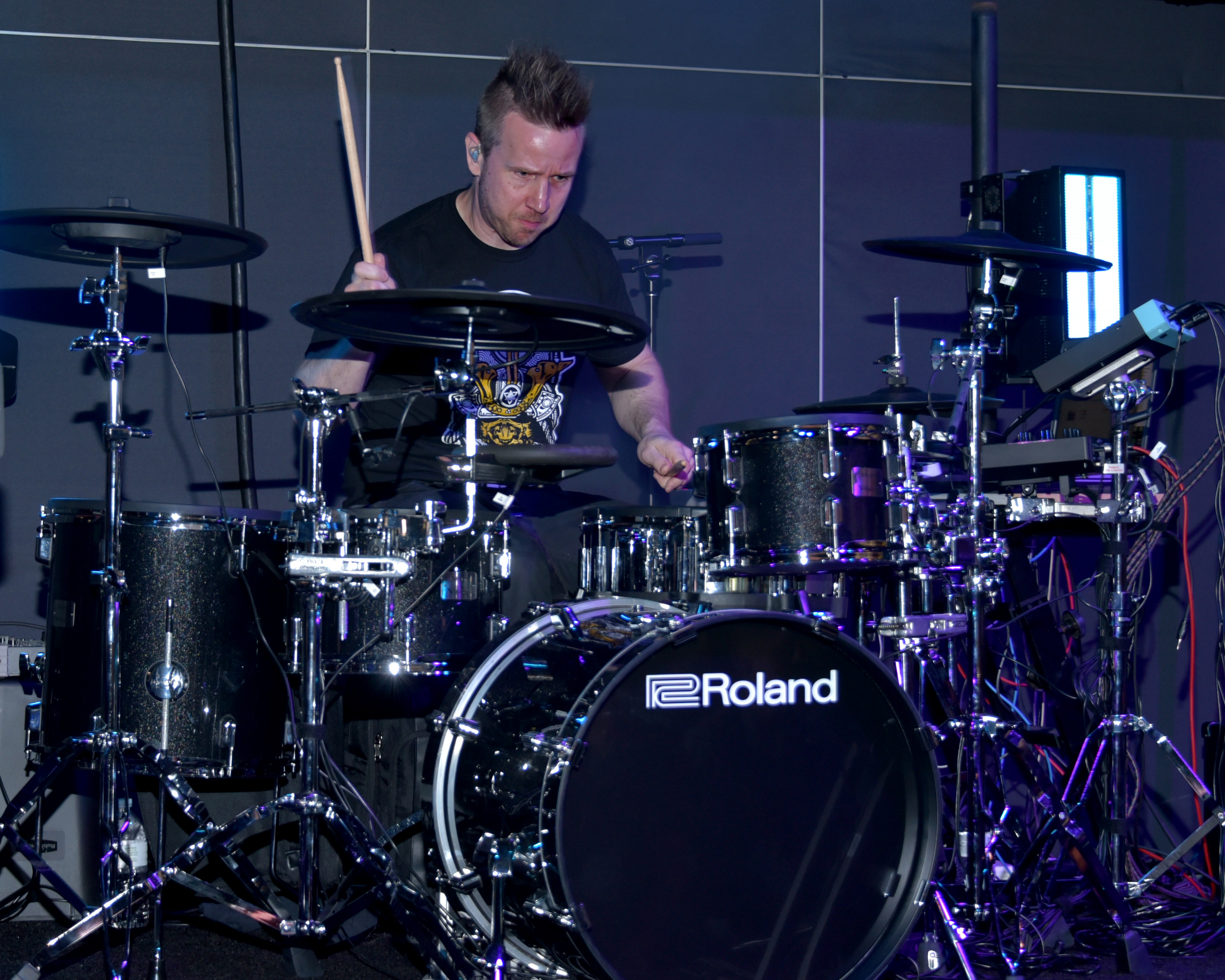 Roland Drums at 'The NAMM Show' on January 17, 2020 in Anaheim, California - Photo by Glenn Francis of